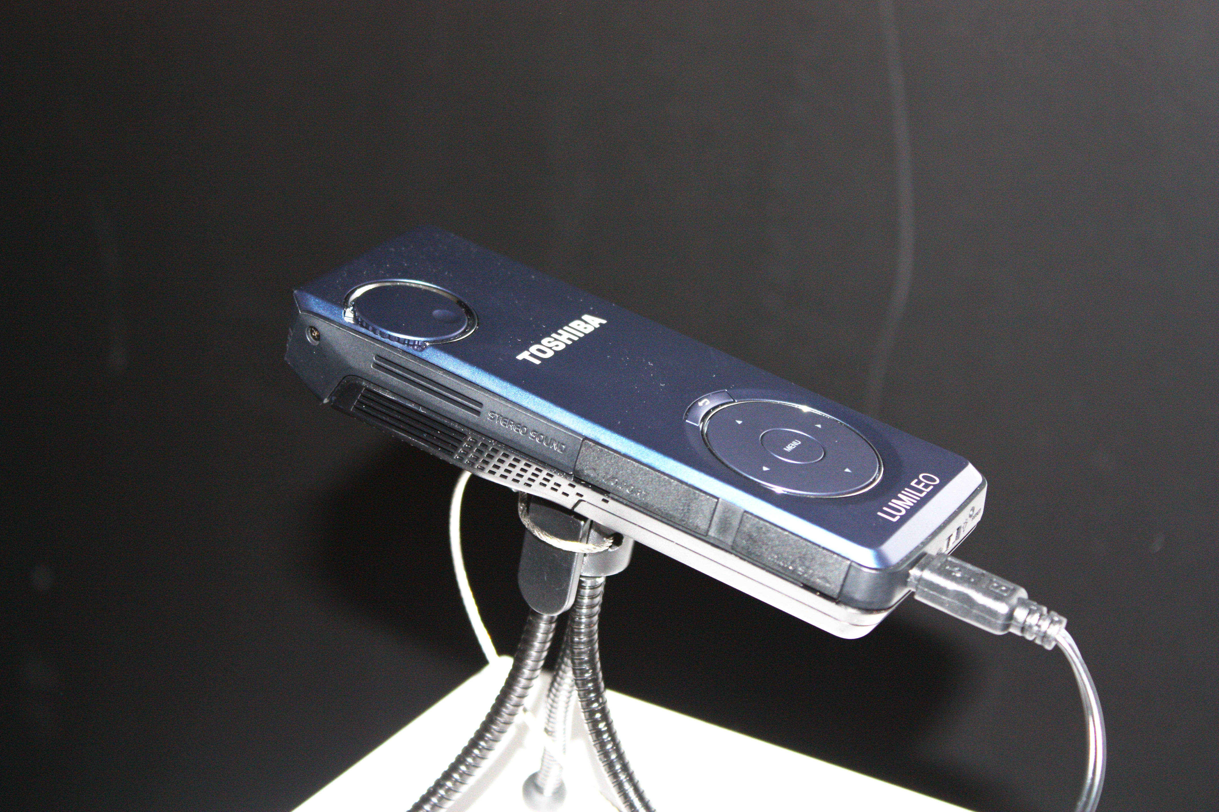 pocekt beamer Toshiba; Lumileo M200; 14 Lumen; Resolution VGA; 2 GB build in memory; USB-port; microSD card slot; LED light source estimated life upt to 20,000 hours